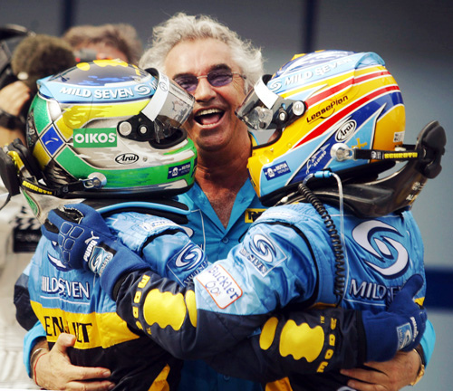 MD of Renault Team, Flavio Briatore hugging his F1 drivers, Fisichella (left) and Alonso (right), after 2006 Malaysian Grand Prix.